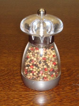 Pepper grinder. Photo taken by me on 24 January 2007.